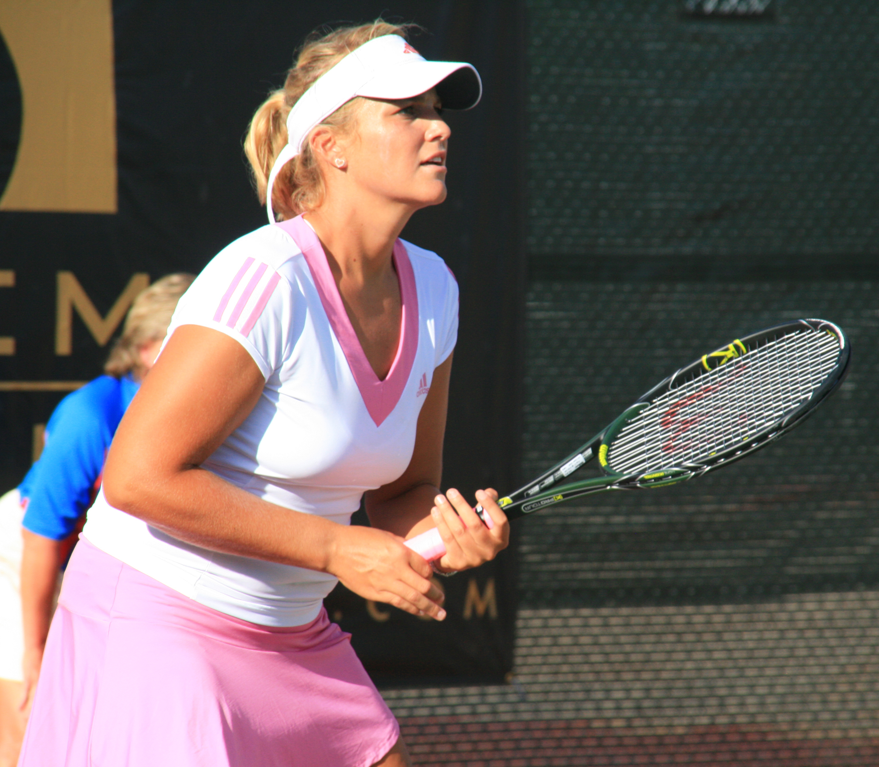 Carly Gullickson at the Coleman Vision Tennis Championship in Albuquerque, New Mexico.